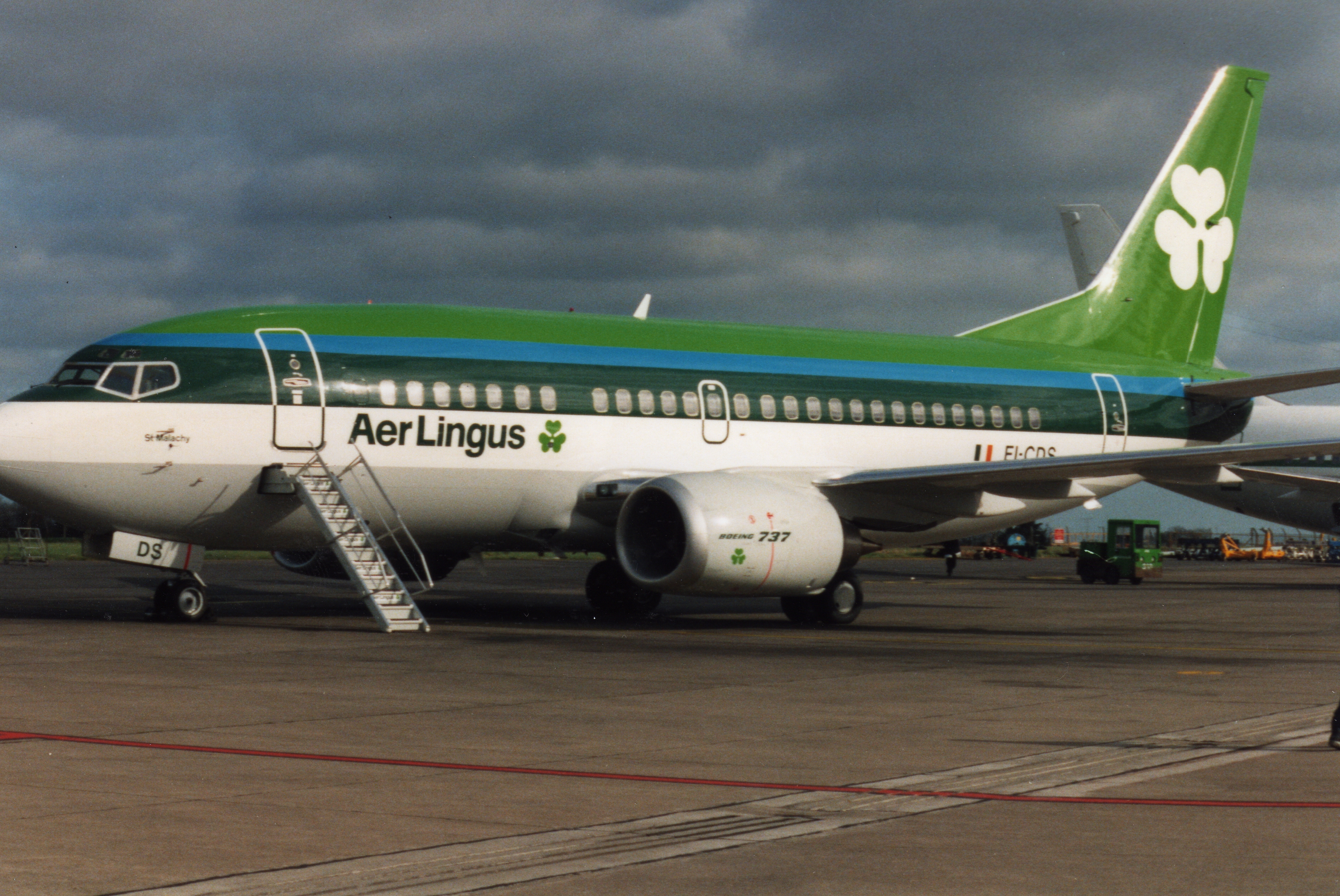 Aer Lingus (EI-CDS) Boeing 737-500 aircraft, Dublin Airport, Dublin, Republic of Ireland, February 1993